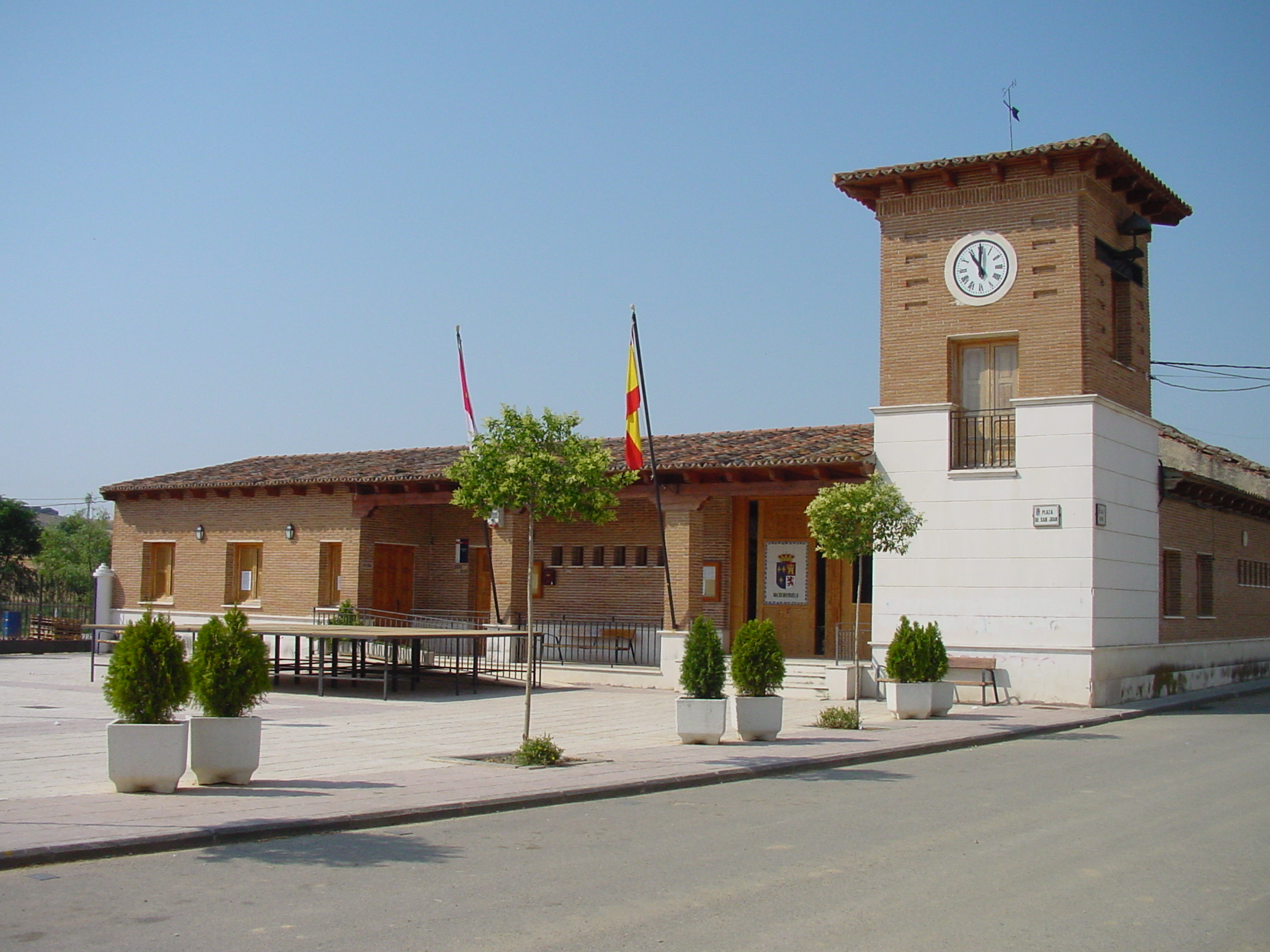 Town Hall of Valdeaveruelo, in Guadalajara, Spain.